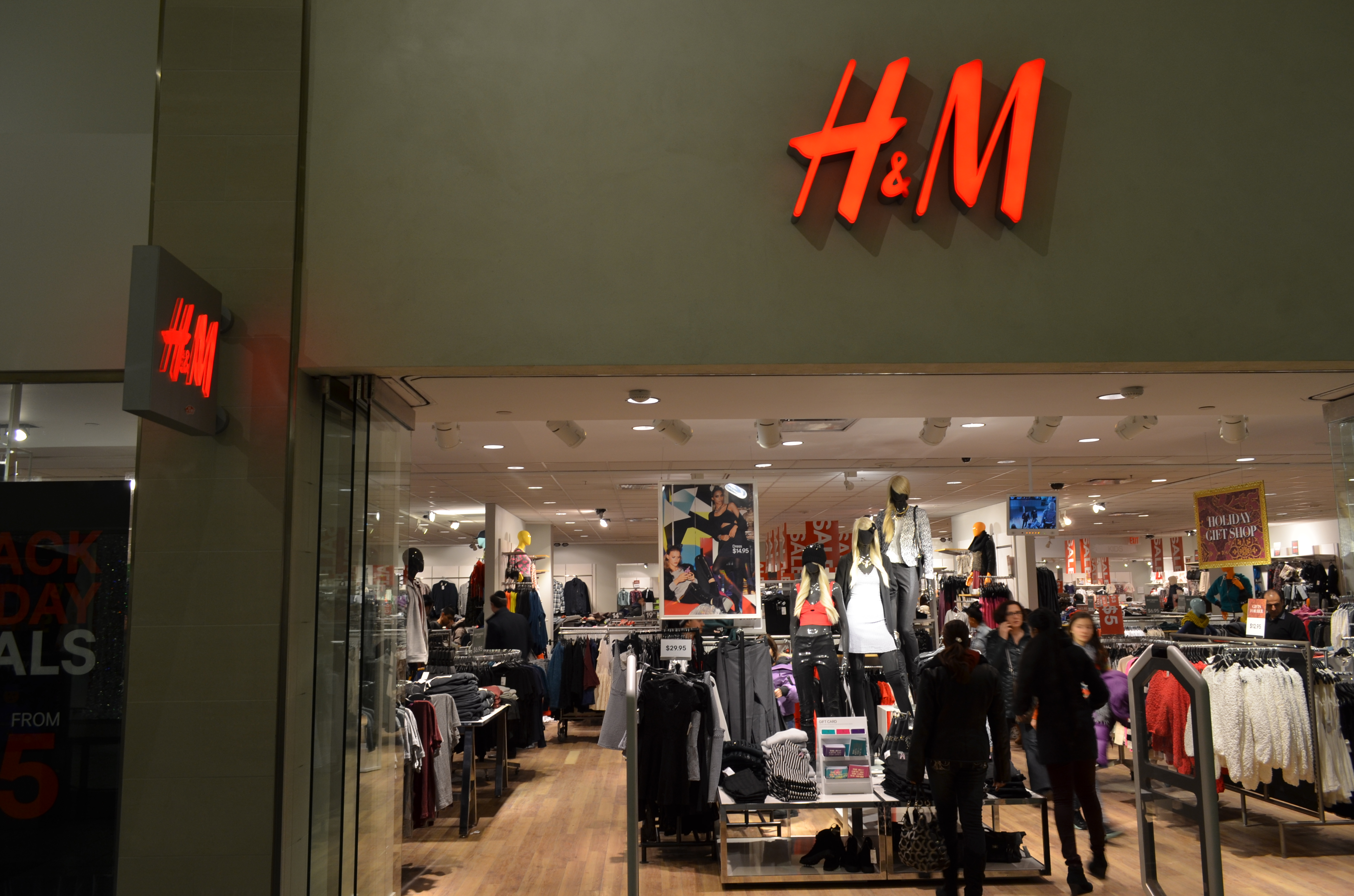 H&M at Vaughan Mills